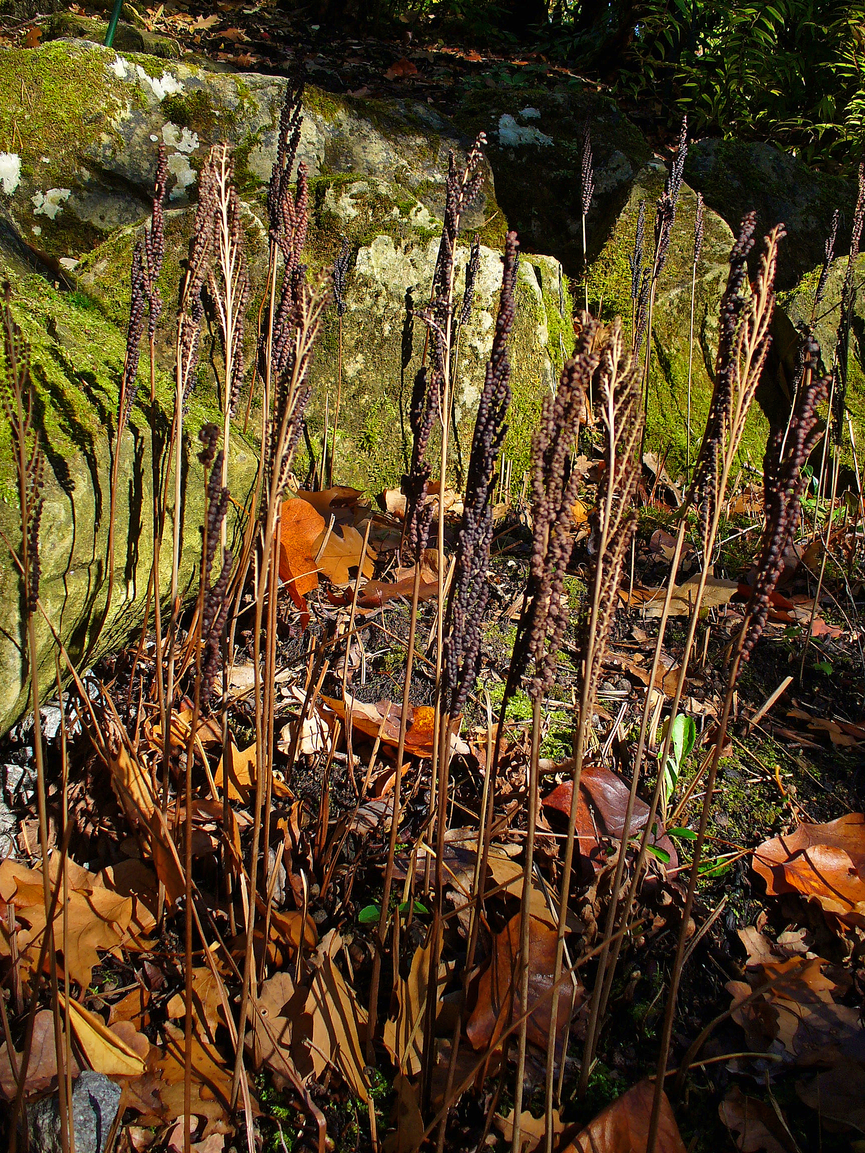 Onoclea sensibilis, Onocleaceae, Sensitive fern, Bead fern, fertile fronds in autumn with“beads”; Botanic Garden Universiy Tübingen, Germany.